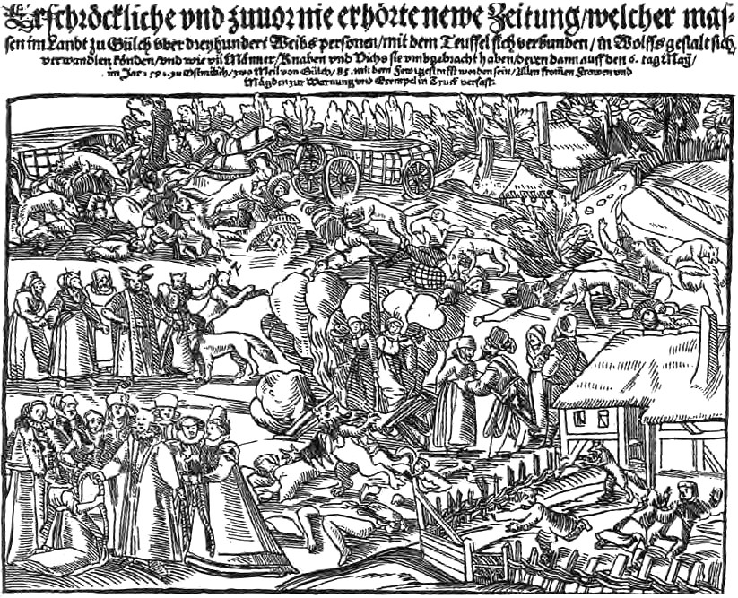 Broadside of Werewolves from Jülich, Germany. Georg Kress, 1591.